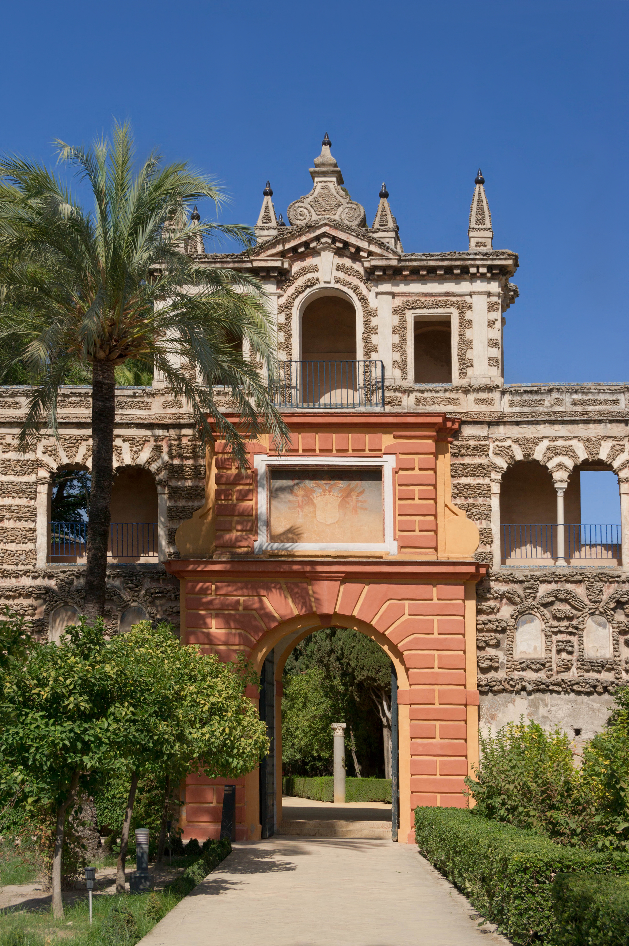 The "Puerta del Privilegio", Gardens of the Alcazar, Seville, Spain.